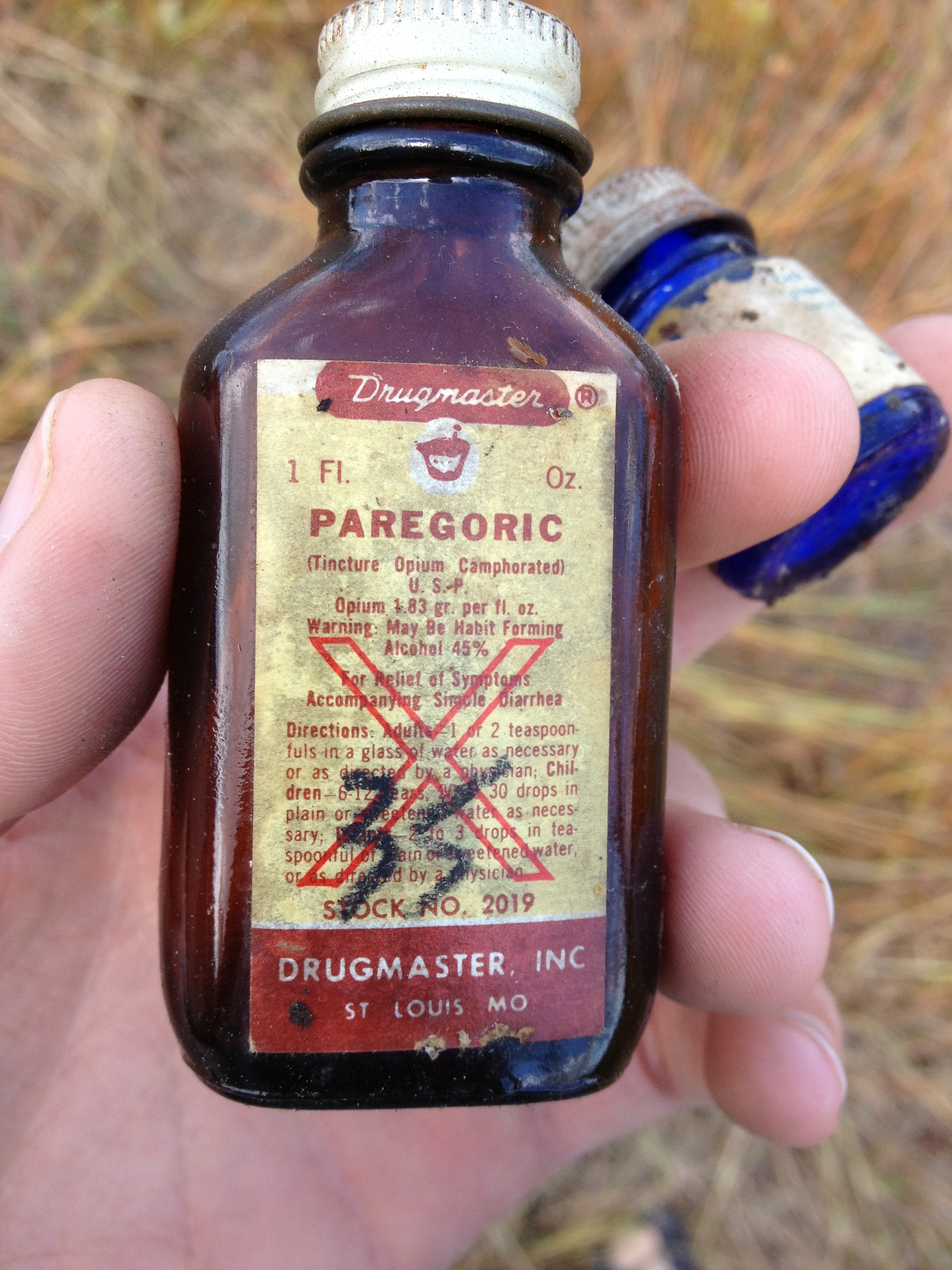 Old bottle of Paregoric. Circa 1940's.